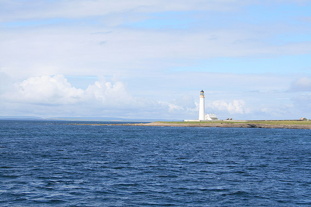 Auskerry Lighthouse, Scotland